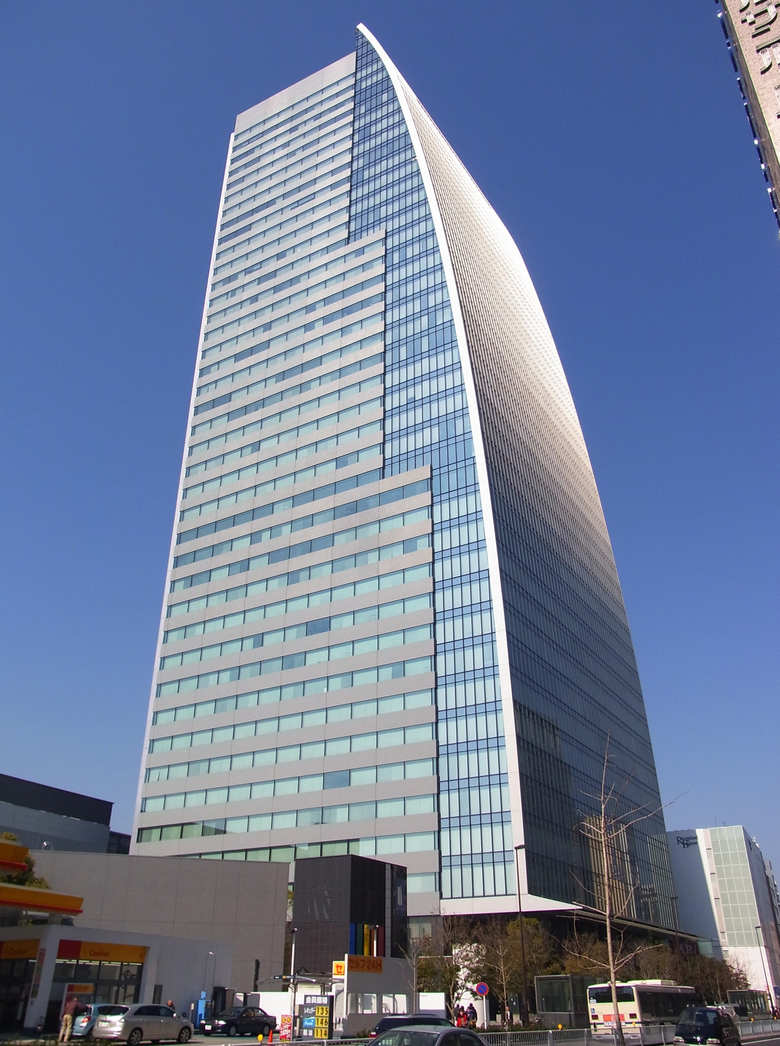 Nagoya Lucent Tower in Nishi-ku Ward, Nagoya City.